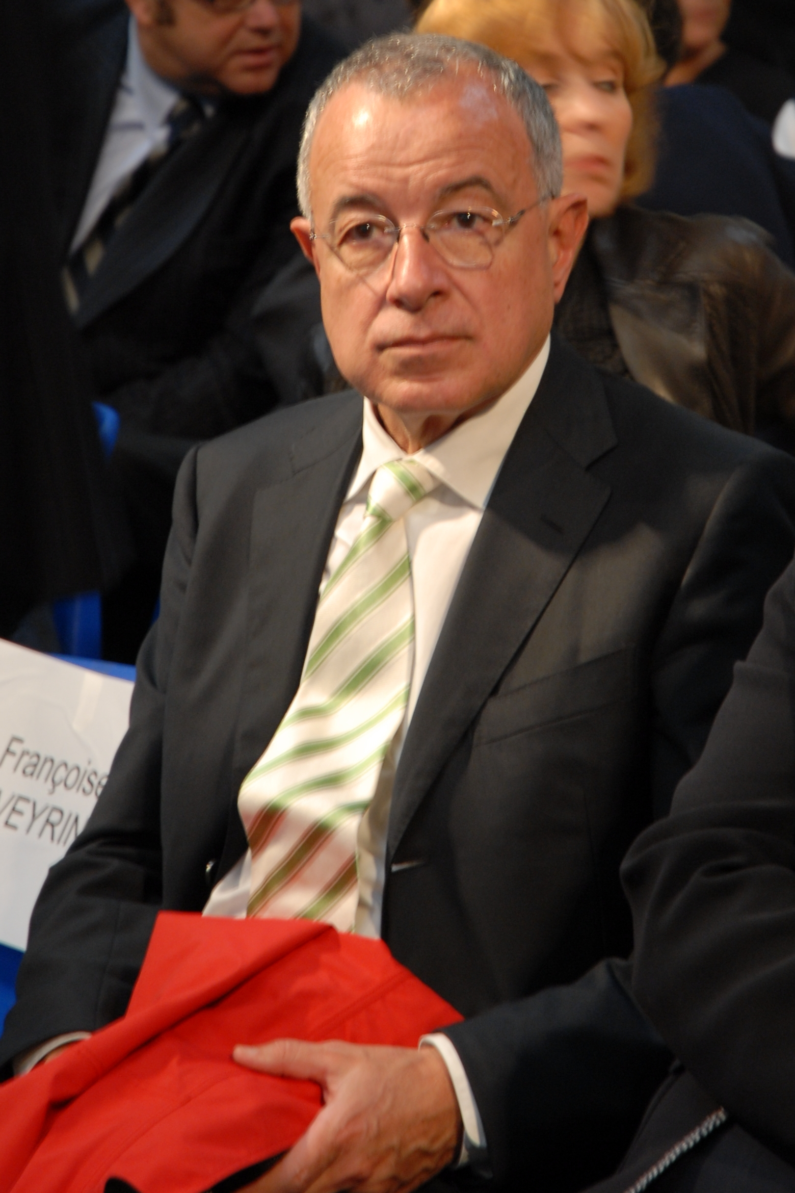 Alain Lamassoure during Nicolas Sarkozy's meeting in Toulouse on April, 12th 2007 for the 2007 presidential election.